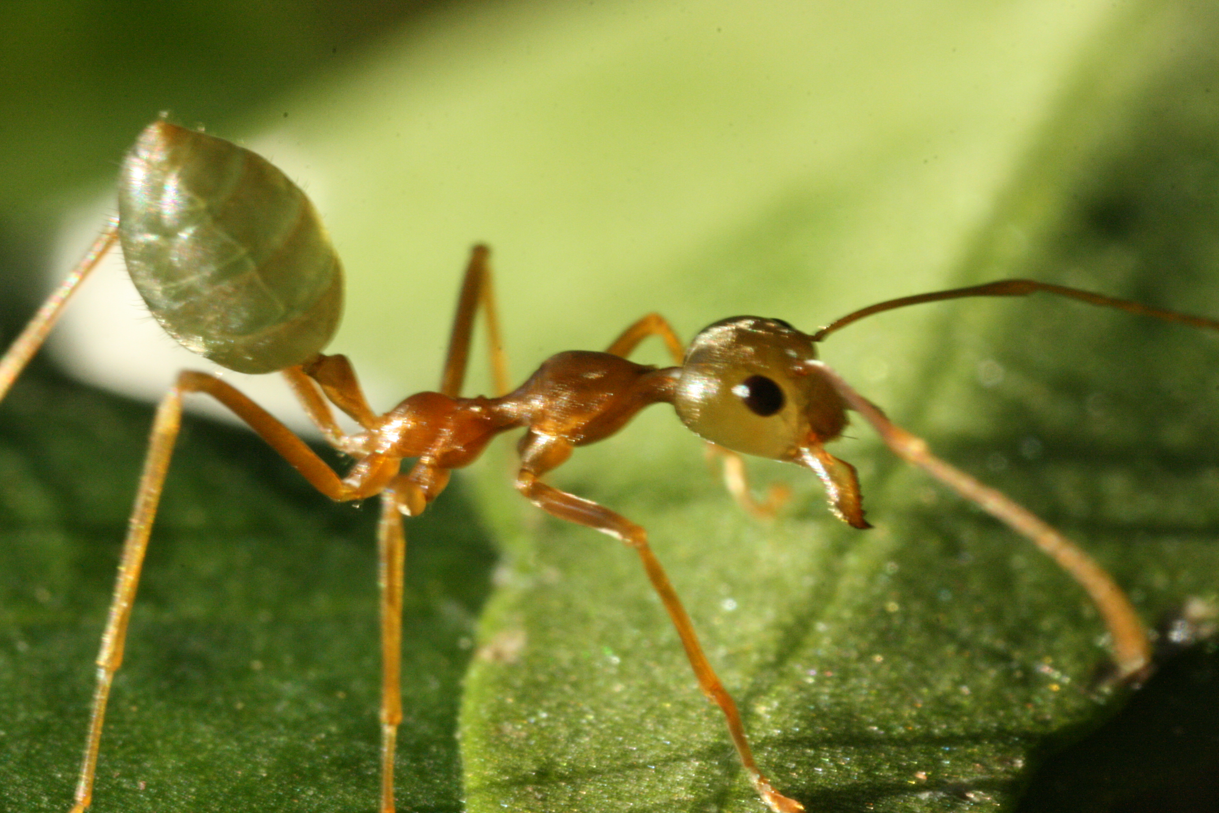 Green Tree Ant at two times life size magnification.